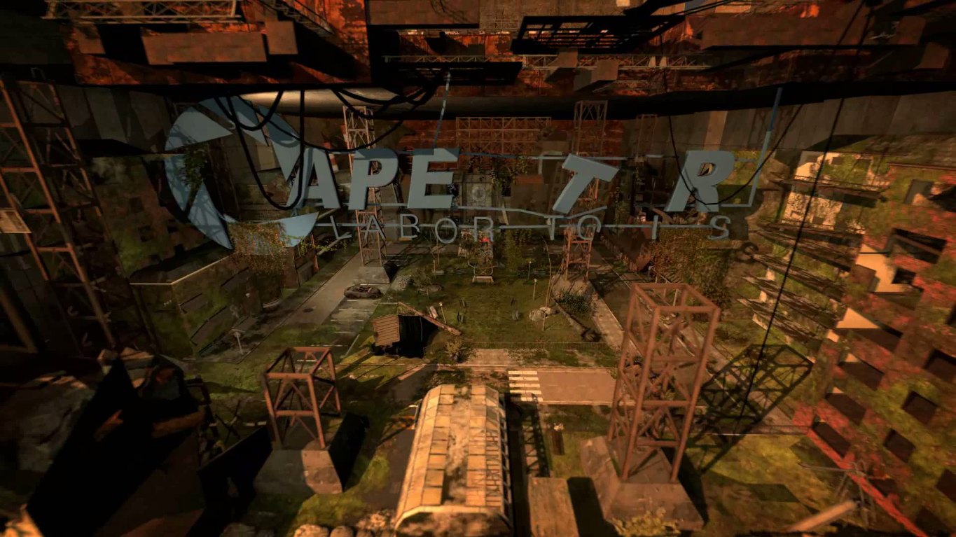 Mel finds the east entrance of Aperture, in ruins, several decades after seeing it for the first time. Screenshot of the game Portal Stories: Mel. Authorized upload after making a request to Prism Studios Ltd.